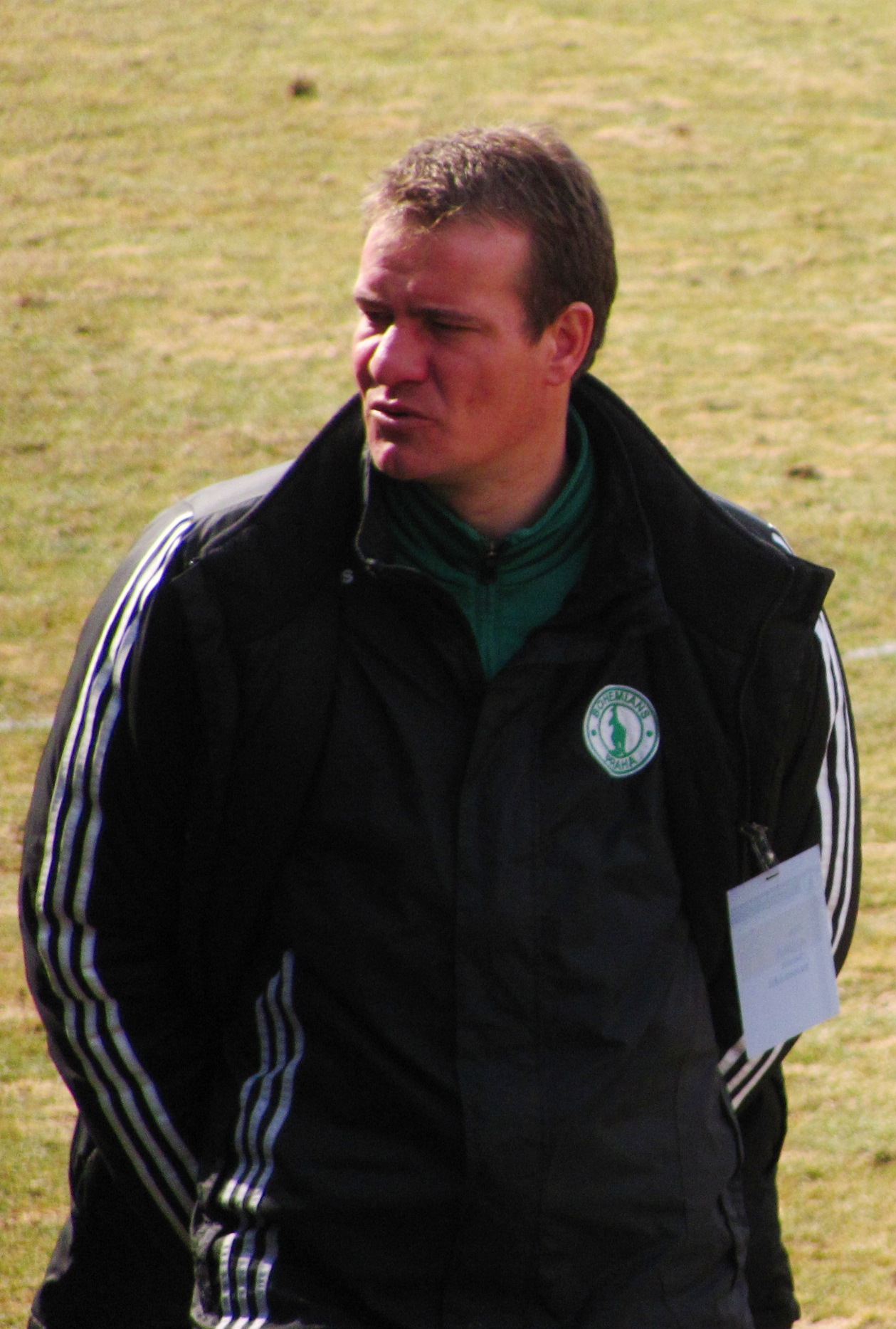 Oldřich Pařízek, Czech footballer (2011)